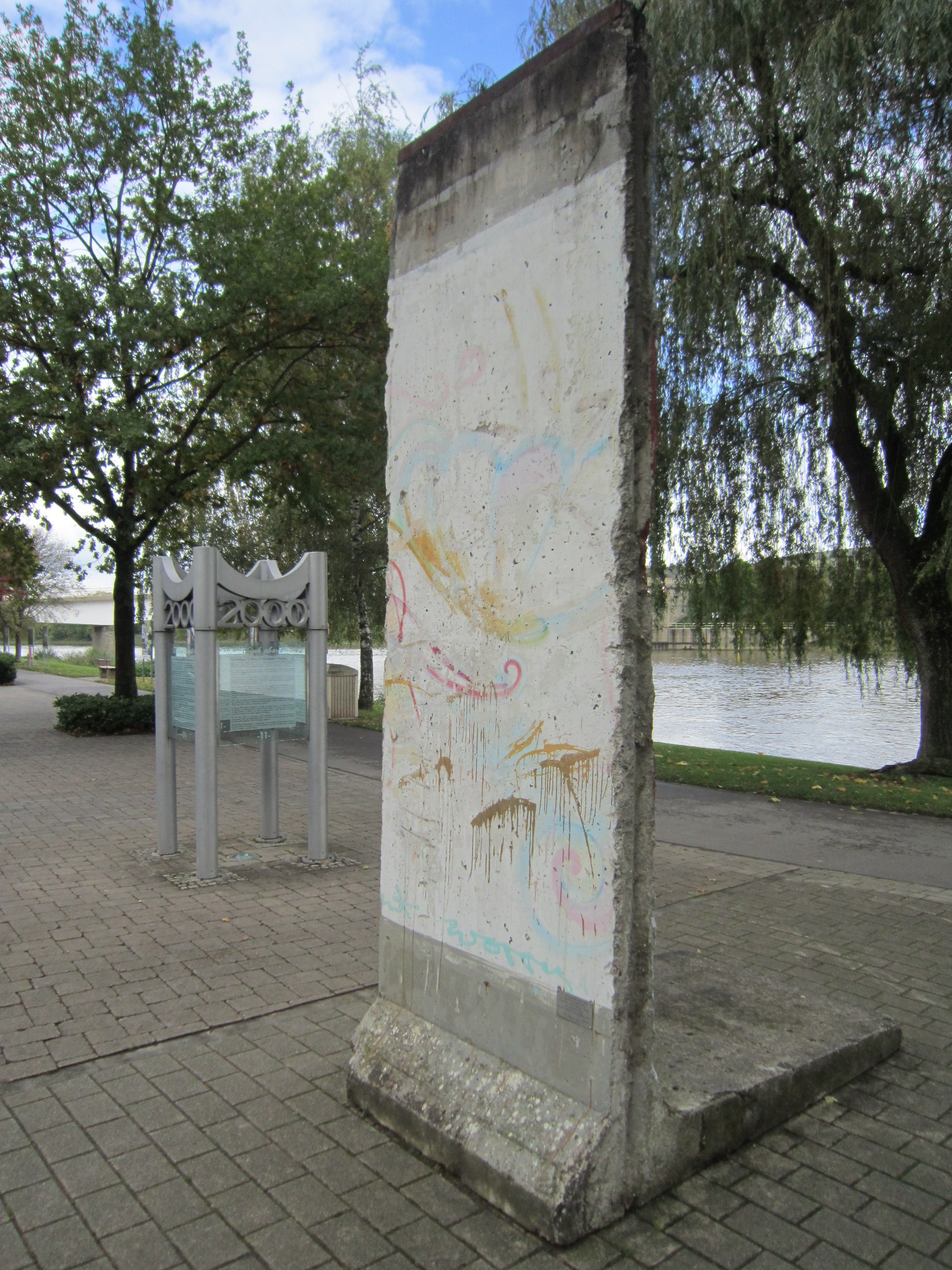 Europe Memorial and segment of the Berlin Wall at the banks of Moselle River in Schengen (Luxembourg)